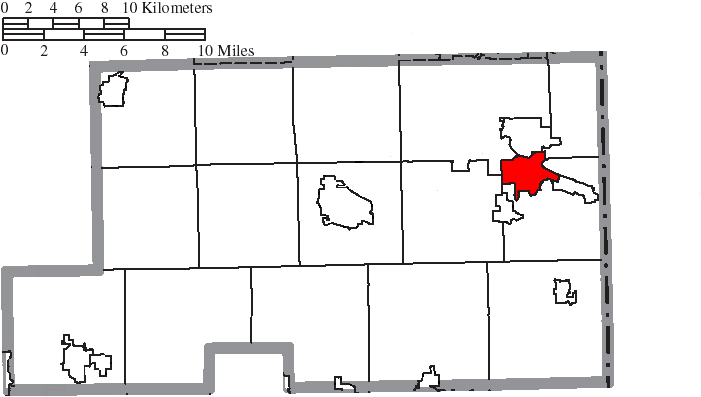 Map of the municipal and township boundaries of Mahoning County, Ohio, United States, as of the 2000 census, with the location of the city of Struthers highlighted. Township borders are shown only in unincorporated areas in order to differentiate incorporated and unincorporated areas more clearly.